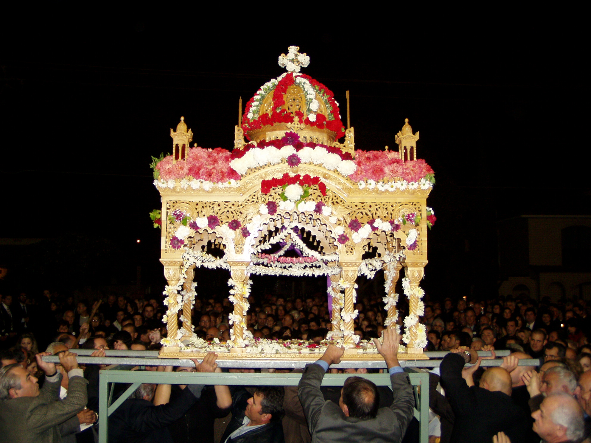 The Epitaph at the Good Friday service at St. George Orthodox Church in Adelaide, Australia.